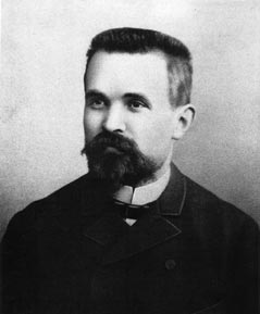 Antoine Louis Gustave Béclère (1876-1950), French radiologist.